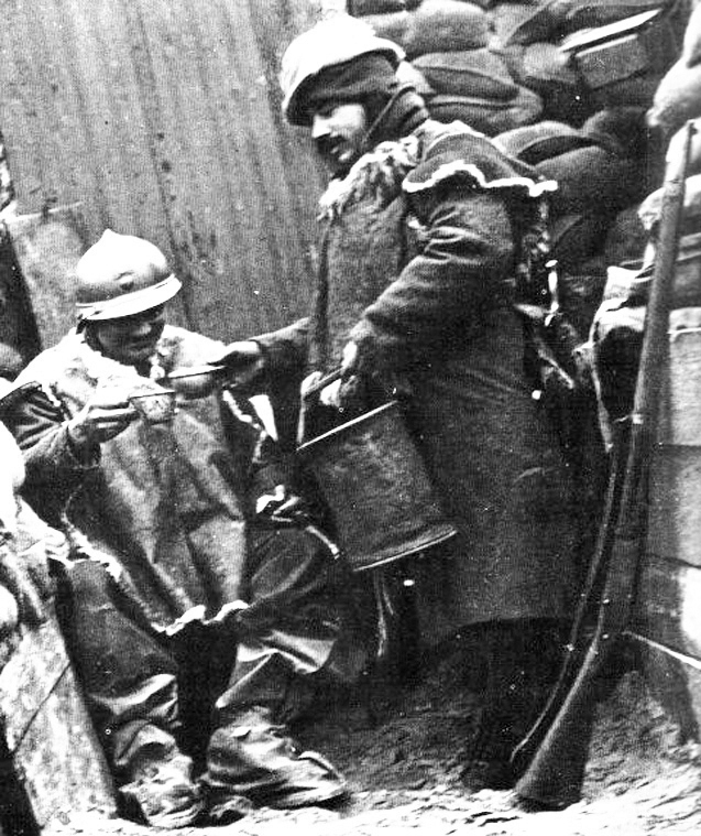 Distribution of pinard (ration wine) in a French trench in winter, World War One